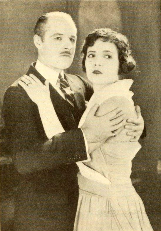 Still with Jack Holt and Lois Wilson in the American silent film The Lost Romance (1921), from page 38 of the July 1921 Photoplay magazine.